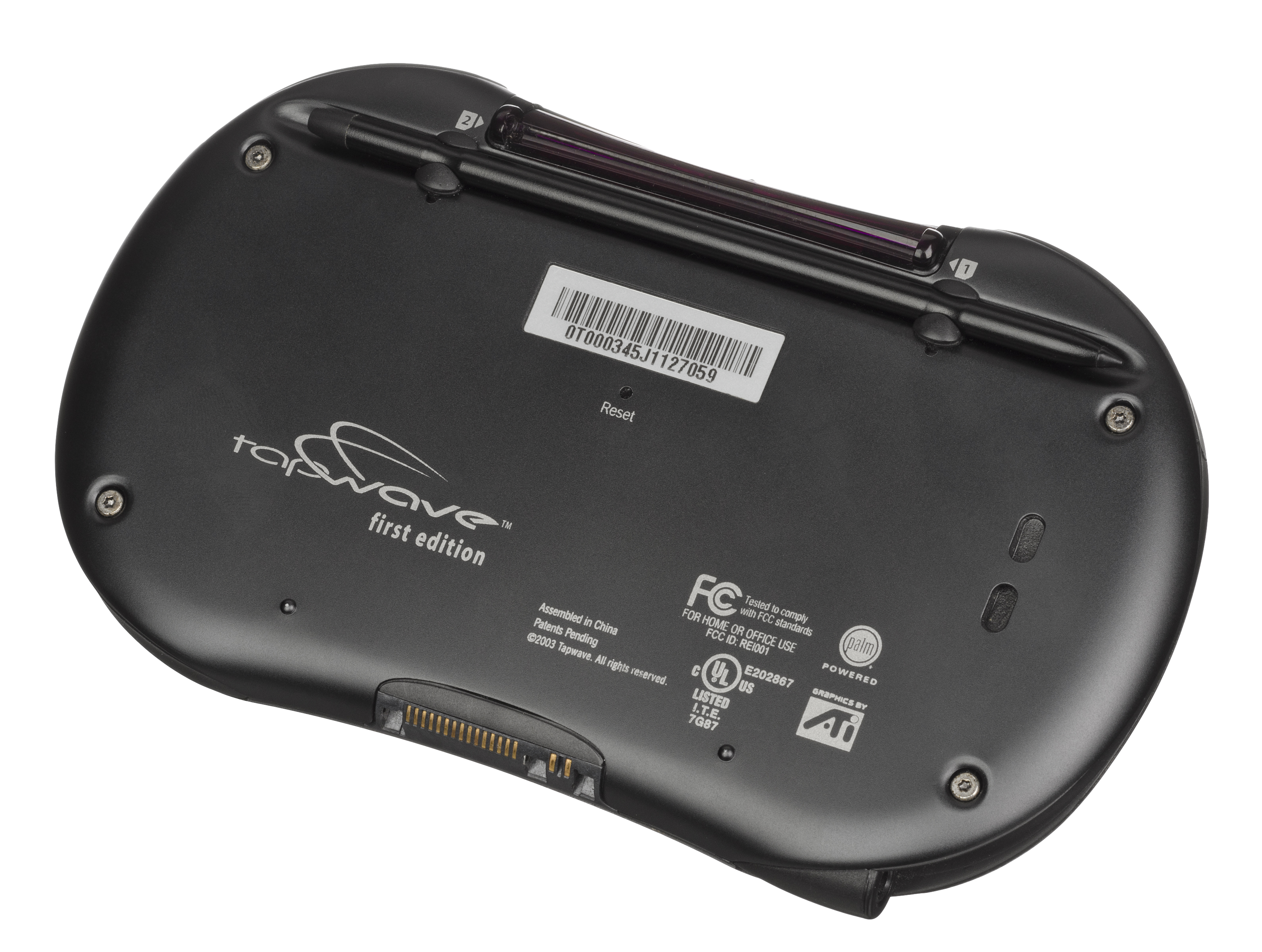 The back of a Tapwave Zodiac 2, a handheld gaming console/personal assistant hybrid from 2003.